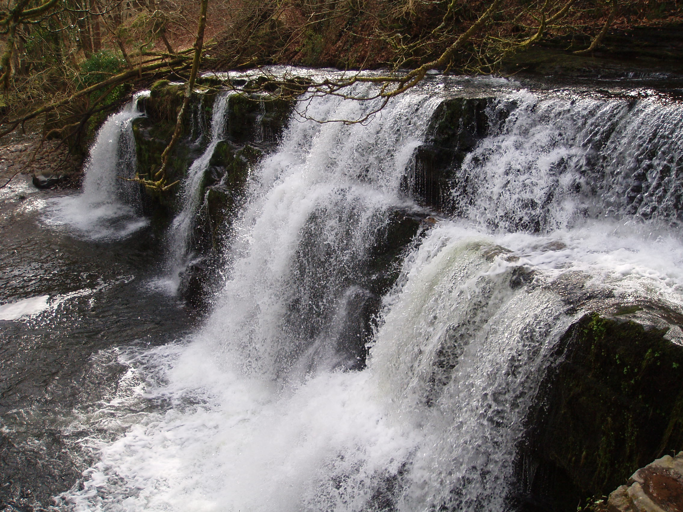 Sgwd y Pannwr, a waterfall on the Afon Mellte near Ystradfellte in the Brecon Beacons National Park